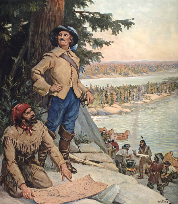 Color reproduction of a painting entitled La Vérendrye at the Lake of the Woods.